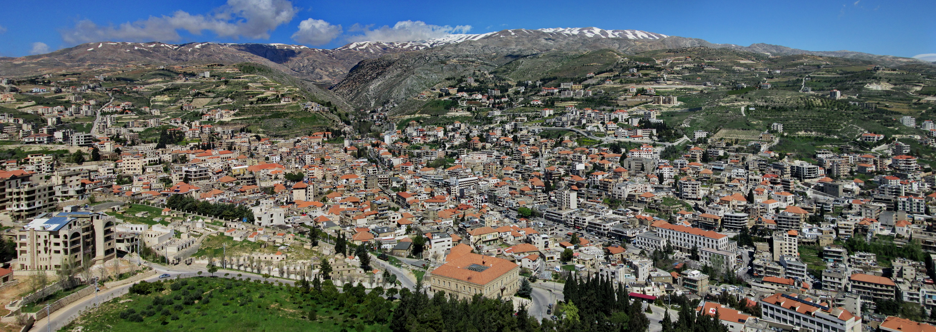 Zahle, Lebanon, Bekaa Valley (picture taken March 28th, 2013)